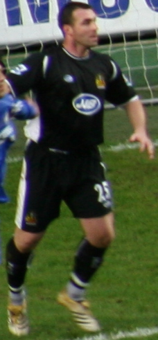 David Unsworth. Image cropped from original at flickr.